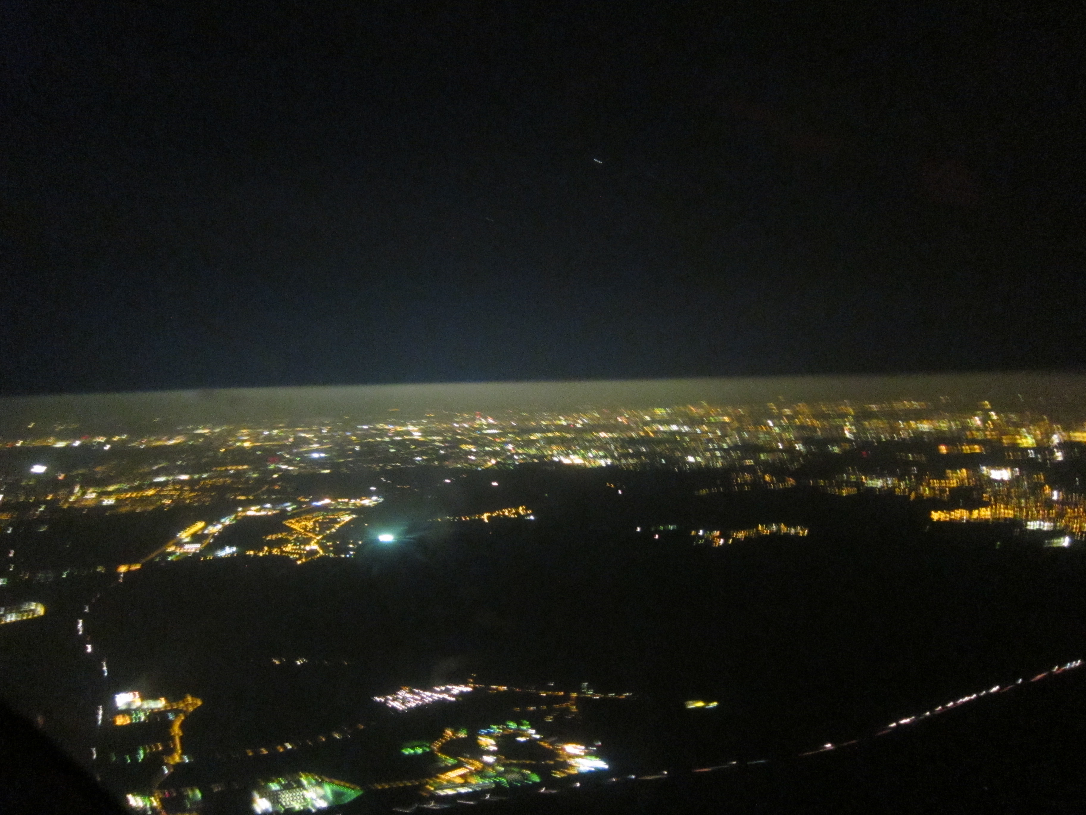 This grey glowing "cloud" over the city of Berlin is due to light scattered off of suspended aerosols below the planetary boundary layer (PBL). The sky above the PBL appears dark because the air is cleaner, giving the upward propagating light less opportunity to scatter towards the viewer. Such a clear view of the PBL is only possible when the viewer is at approximately the same altitude as the layer. The bright bluish spot on the photo is Olympiastadion Berlin